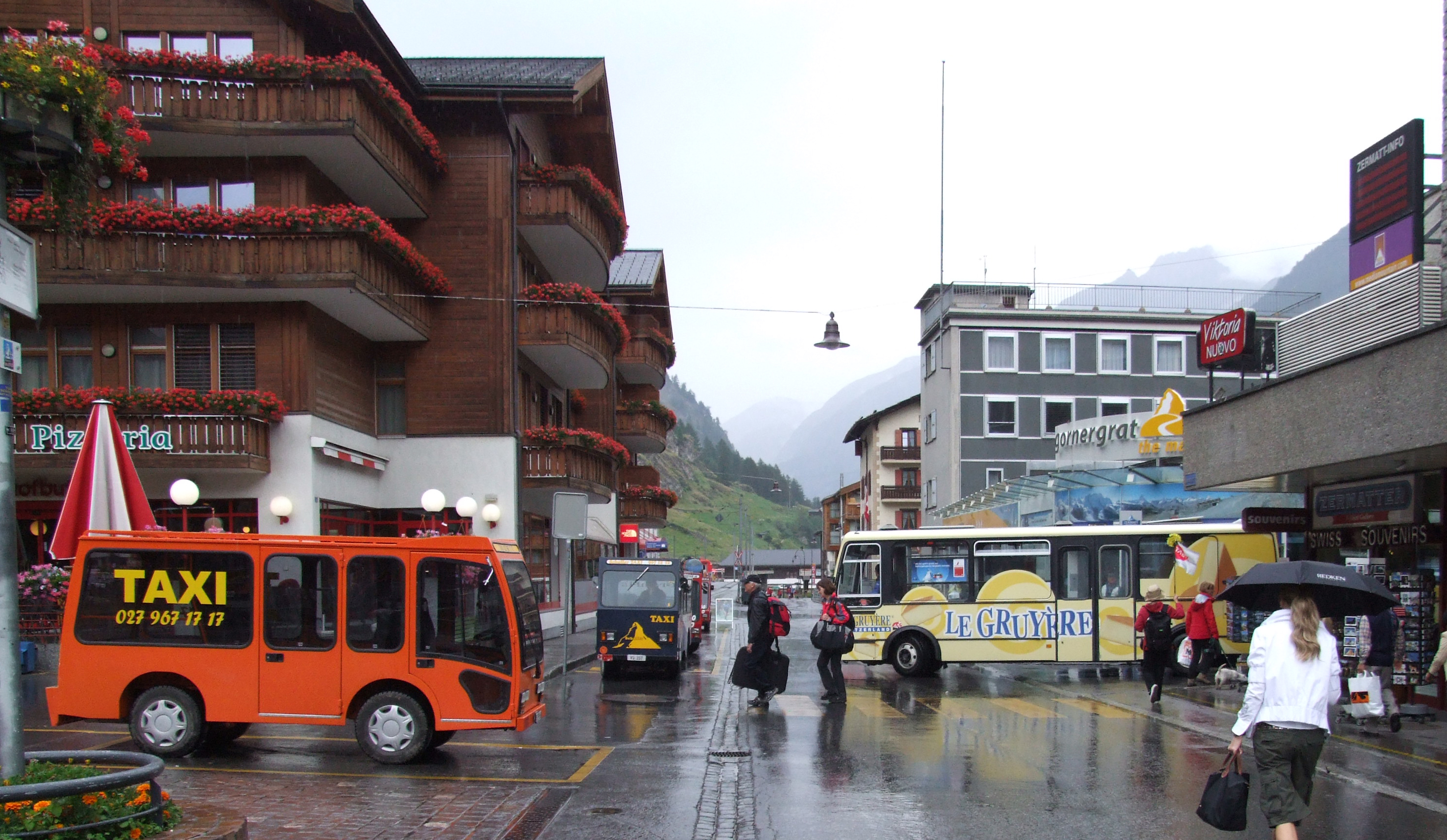 Electric taxis and electric bus in Zermatt, Switzerland